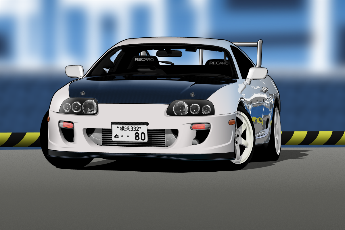 A vexel artwork of a Toyota Supra, compiled of both raster and vector layers.